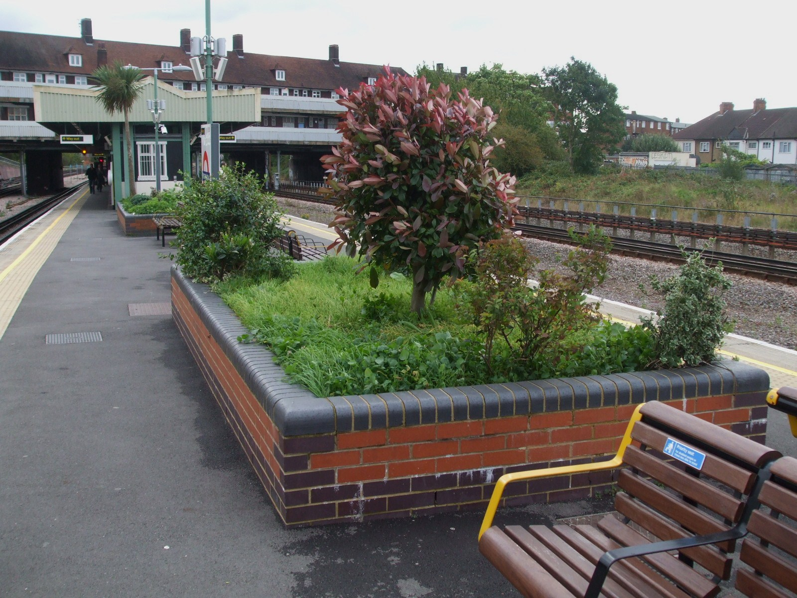 Preston Road tube station flower bed (one of several) on platform